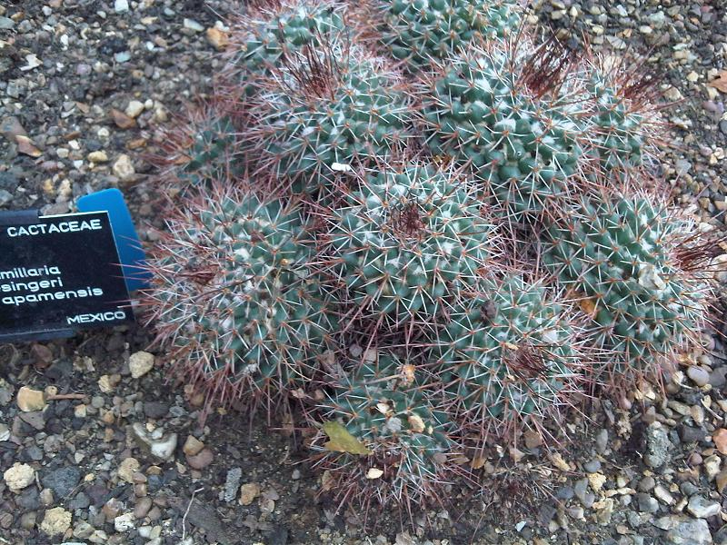 Mammillaria wiesingeri subsp. apamensis at Kew Gardens, England.